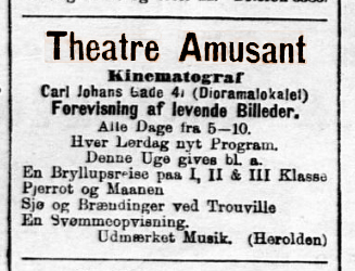 Early ad for shows at Theatre Amusant, one of the first regular cinemas in Kristiania (Oslo, Norway). From the newspaper Aftenposten December 2nd, 1904.